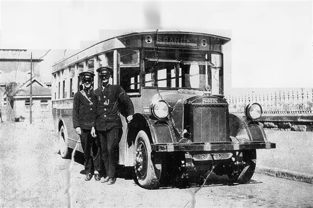 One of Brisbane City Council's first buses